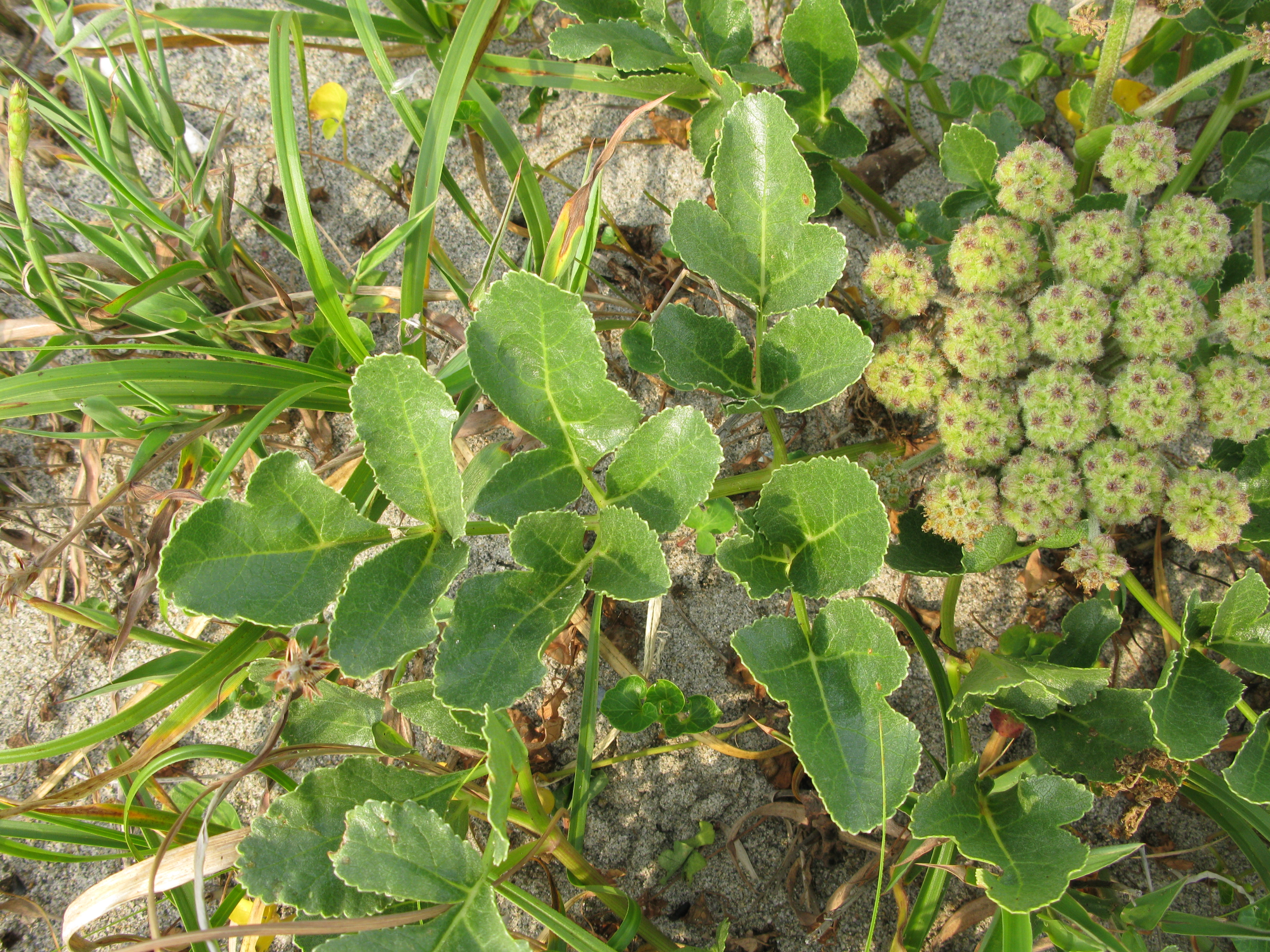 Glehnia littoralis, Syonai area, Yamagata pref., Japan